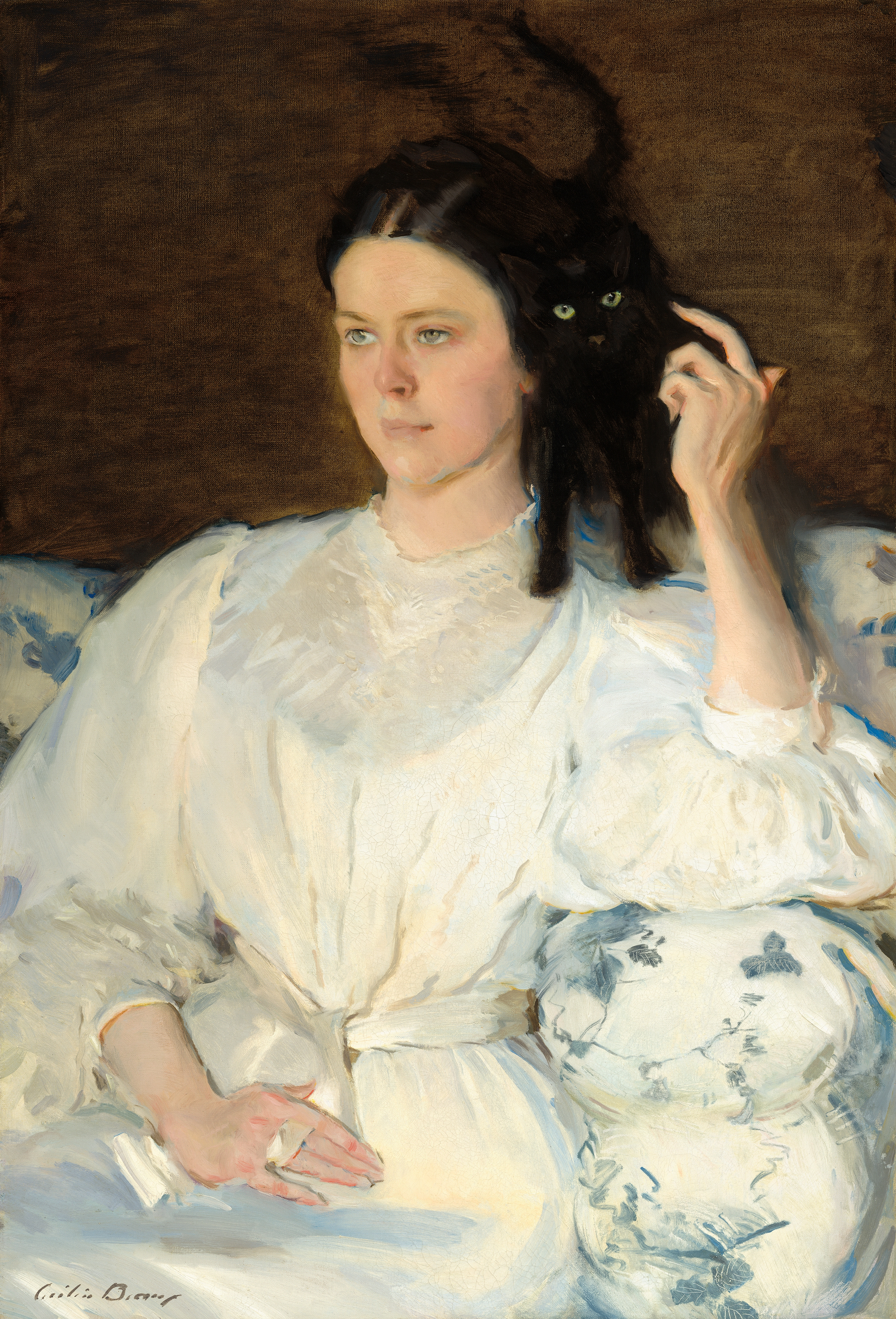 This portrait by Cecilia Beaux portrays the artist's cousin, Sarah Allibone Leavitt, dressed in white with her black cat on her shoulder. Beaux was recognized not only for her bold painting technique, but also for her ability to imbue her female subjects with wit and intelligence, rendering them more than just mere objects of beauty. A student in Paris in the late 1880s, the artist was influenced by her firsthand exposure to French impressionism. Her light-filled palette and gestural style invite comparisons with many of her contemporaries, including William Merritt Chase, James McNeill Whistler, John Singer Sargent, and Mary Cassatt. The sitter's white dress, for instance, evokes Whistler's infamous 1862 painting of Joanna Hiffernan, Symphony in White, No. 1: The White Girl (National Gallery of Art, Washington). The formal connection between the two paintings demonstrates Beaux's knowledge of Whistler's painting. Additionally, the direct gaze of the black cat perched on Sarah's shoulder references Edouard Manet's painting Olympia (1865, Musée d'Orsay, Paris), in which a similarly posed black cat sits at the foot of Olympia's bed. These connections suggest that Beaux intended to reveal more with this portrait than simply her mastery of painting technique. The enigmatic title of the painting may represent Manet's influence—Beaux's use of Spanish diminutives, Sarita for Sarah and Sita, meaning "little one," for the cat, acknowledges the late 19th-century popularity of Spanish painting, championed by Manet. The present work is a replica of the original painted in 1893 and displayed in the 1895 Society of American Artists exhibition in New York. Before donating the original to the Musée de Luxembourg in Paris (now in the collection of the Musée d'Orsay, Paris), Beaux recorded that she made a second painting for her "own satisfaction when the original went to France for good."